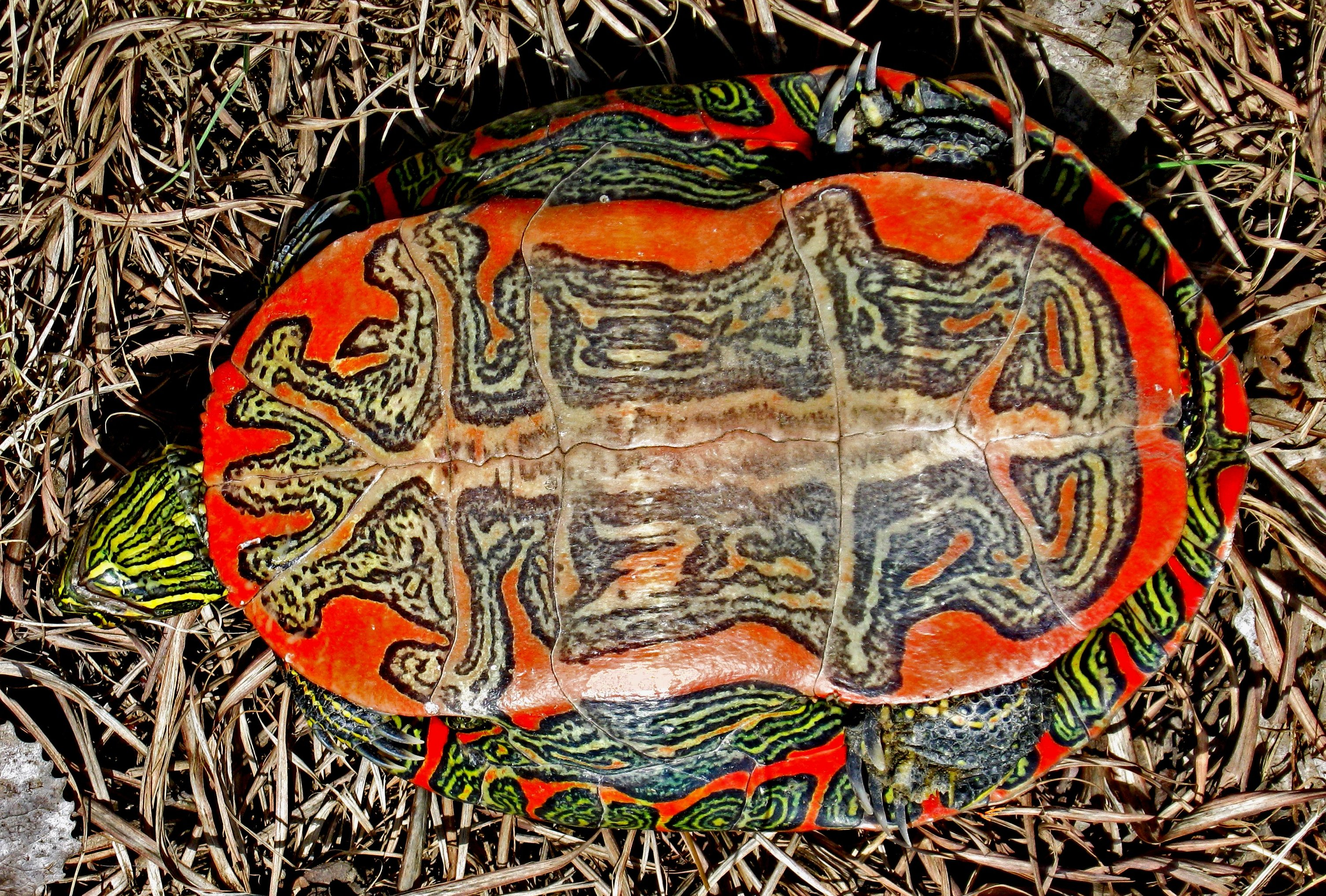 Bottom shell view of a western painted turtle, Colorado. (for use in a gallery with common aspect ratios)